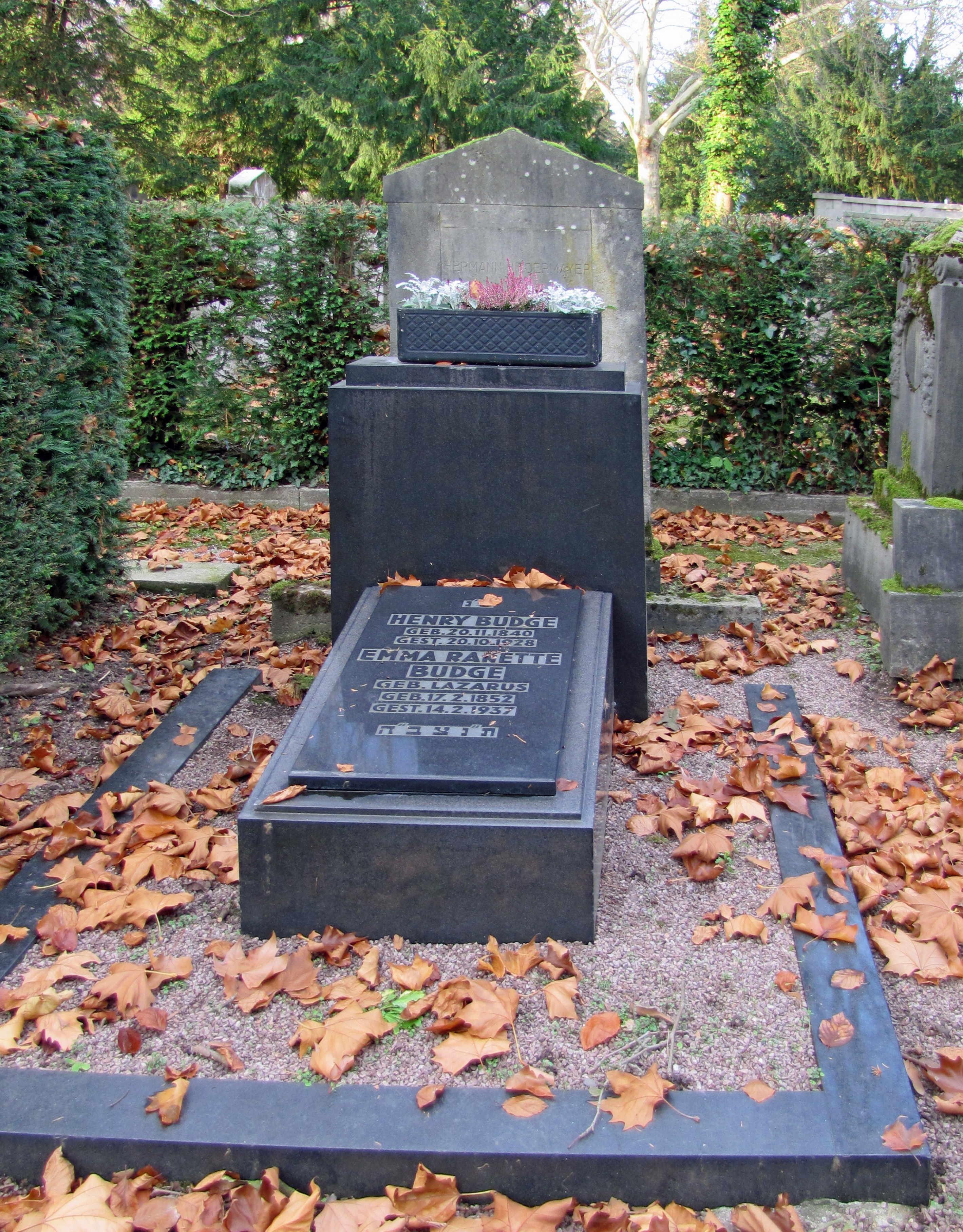 Jewish cemetery at Rat-Beil-Strasse in Frankfurt am Main, Germany. Gravestone of Henry and Emma Budge.